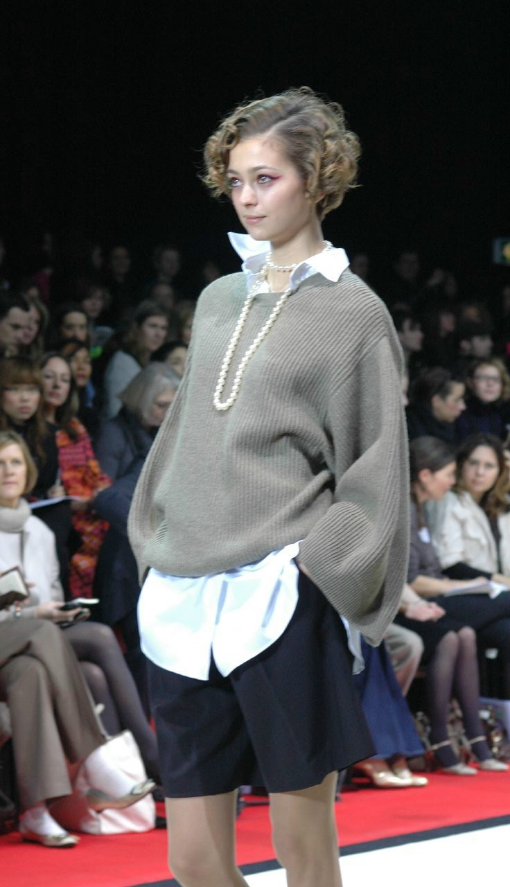 Morgane Dubled at the Paul Smith Women fall 2007 fashion show, London Fashion Week